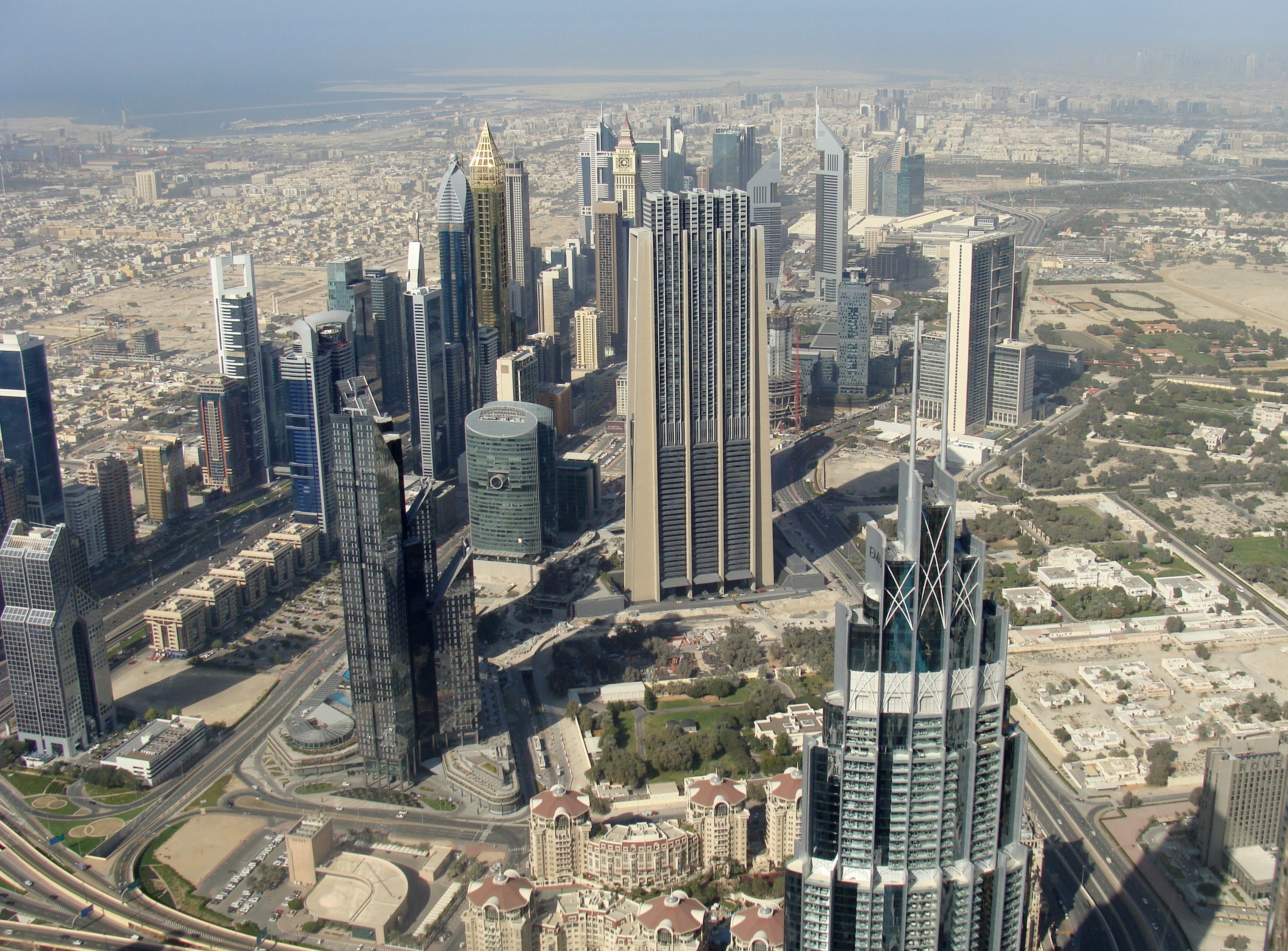 Aerial photographs of Dubai. Taken from Burj Khalifa